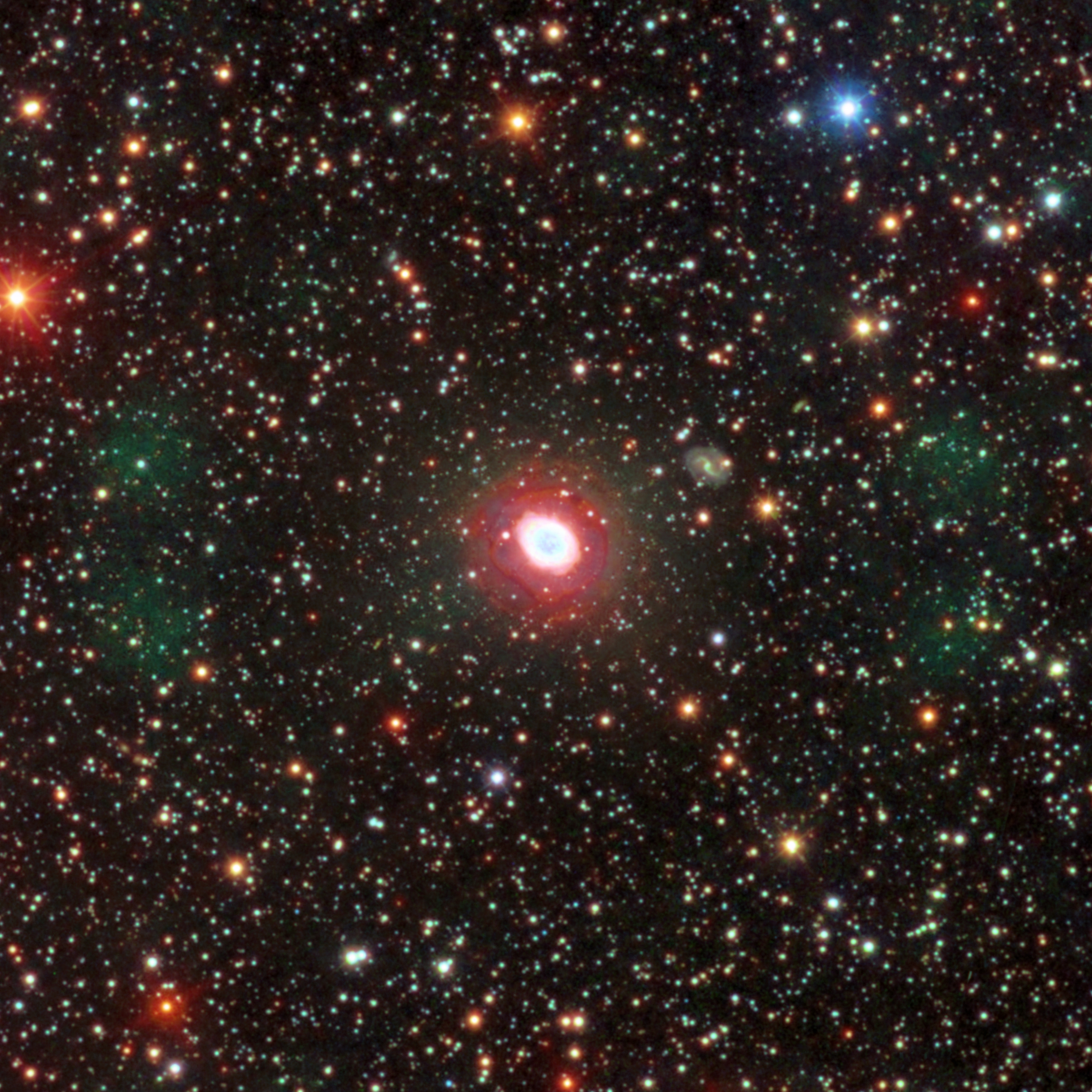 M57 Large scale structure [Image Of Team] Image credits: Domenico Argentiero, Giuseppe Donatiello, Terenzio Fusco, Federico Lavarino, Colin McGill, Alessandro Elio Milani. RA: 283,387° Dec: 33,026 The Ring Nebula (Messier 57 or NGC 6720) is a planetary nebula in the northern constellation of Lyra and it is illuminated by a central white dwarf or planetary nebula nucleus (PNN) of 15.75 visual magnitude. All the interior parts of this nebula have a blue-green tinge that is caused by the doubly ionized oxygen emission lines at 495.7 and 500.7 nm. In the outer region of the ring, part of the reddish hue is caused by hydrogen emission at 656.3 nm. M57 is an example of the class of planetary nebulae known as bipolar nebulae. The purpose of this image is only to highlight the large-scale structure of the object, much more extensive than the central part. Note the four lobes only visible in OIII, part of a ring very weak. Clearly visible a halo mostly in OIII in bipolar structure. All images have been aligned with a composition of related RB POSS-II plates. Telescopes: Ian King Ikharos 8 "RC - SW BKP 250 DS f/4.8 - Celestron C9.25 XLT - (DIY) ED doublet 127 f/9 v.13 - Celestron C8 CPC 800 XLT - A-P EDT 130 f/9 Total exposure: 62 hours.